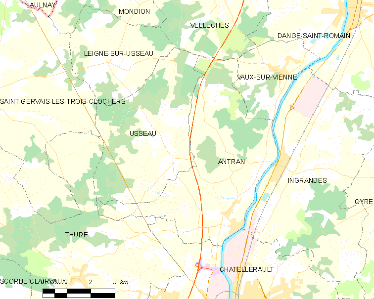 Map of French municipality Antran